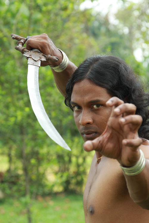 Korathota Angam Guru Ajantha Mahantharachchi